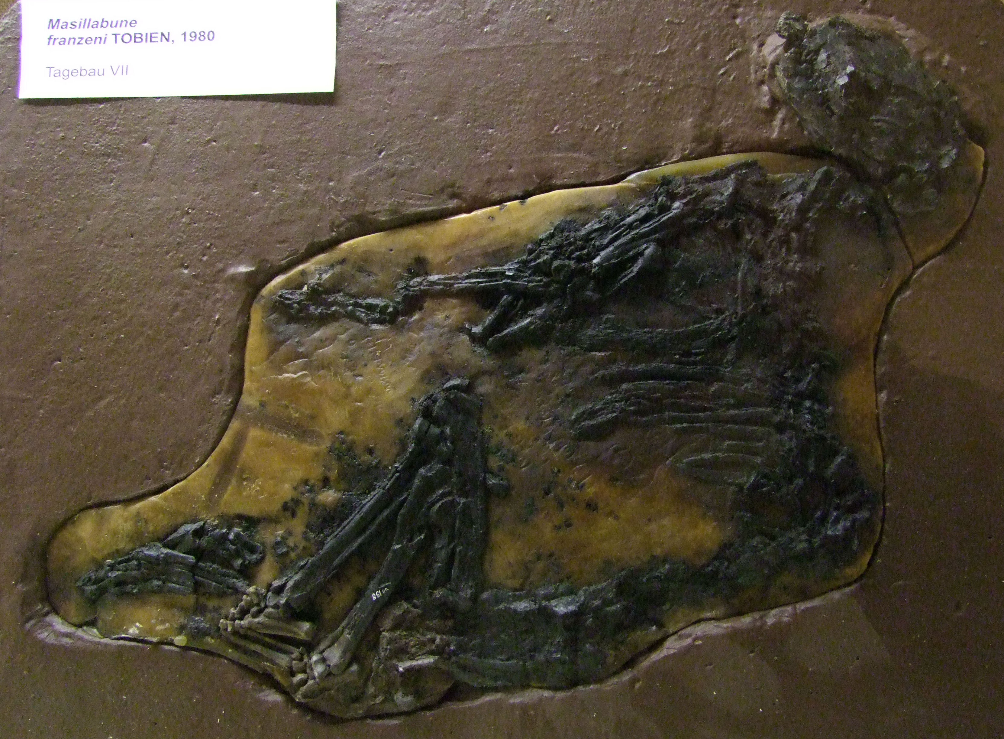 skeleton of Masillabune from the Geiseltal, Germany, Middle Eocene; took the picture in the Geiseltalmuseum, Halle (Saxony-Anhalt)